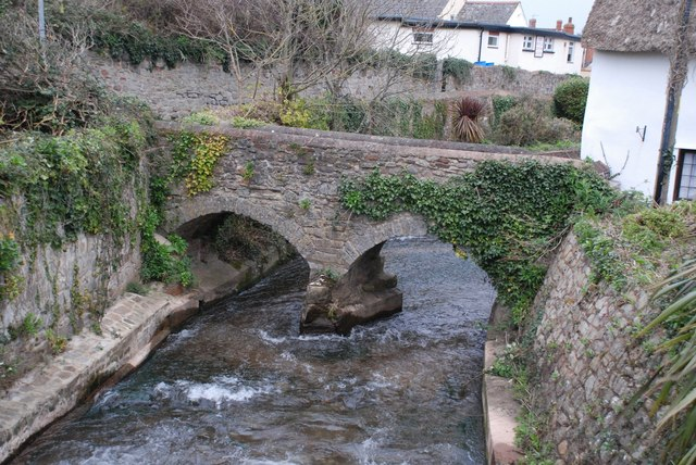 Grade II listed footbridge over Washford River adjacent to Waterloo Cottages in Mill Street, Watchet, Somerset, England. Possibly 18th Century. For more information see the Wikipedia articles Watchet and River Washford.